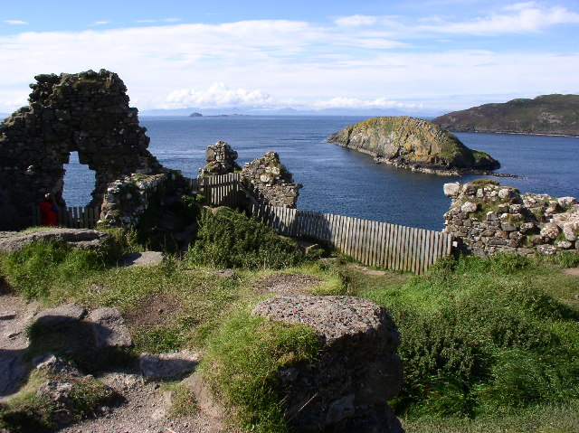 Duntulm Castle. The ruins of Duntulm Castle in Trotternish, with Tulm Island just offshore and the Outer Hebrides in the distance